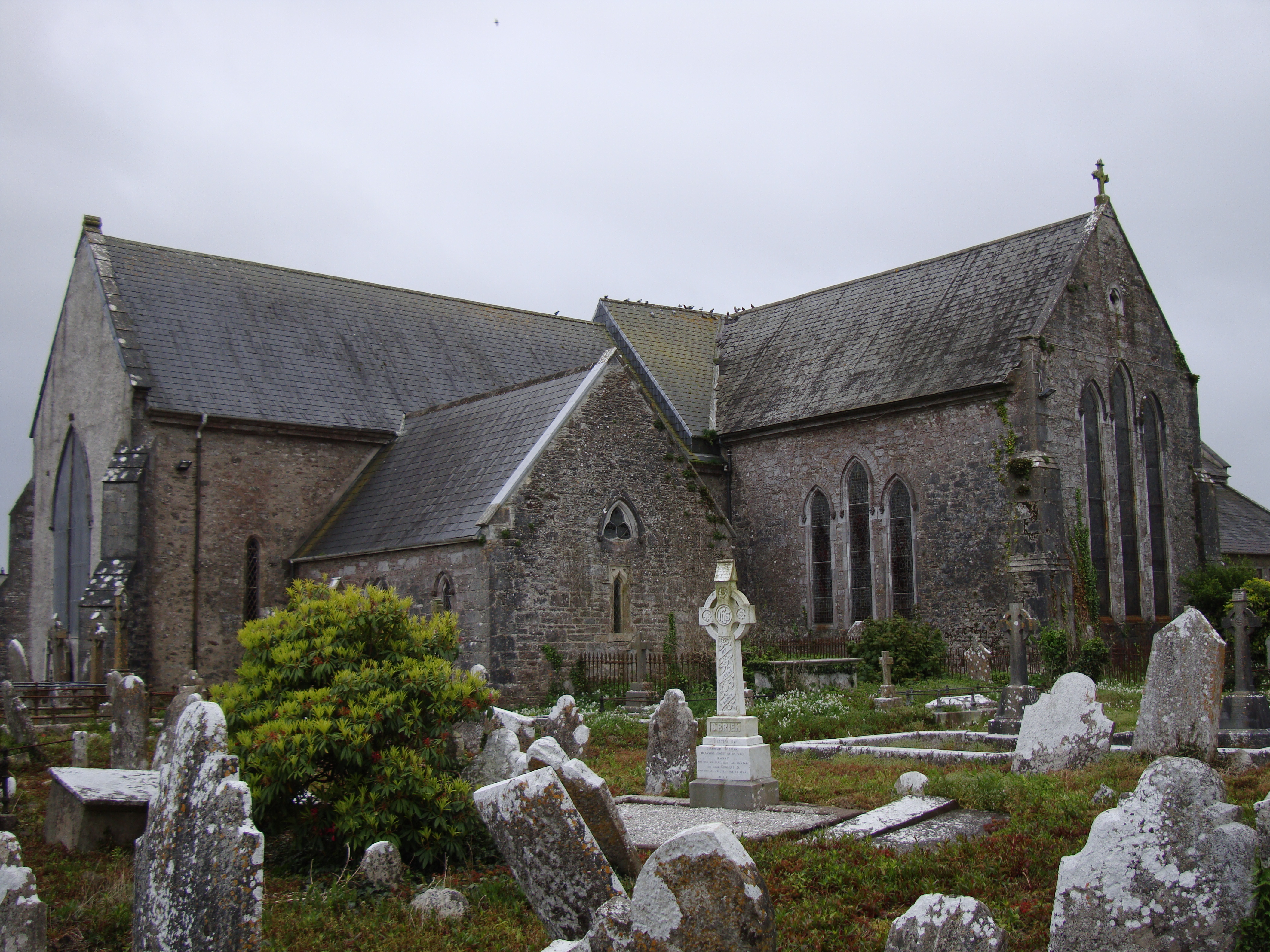 Photograph of Cloyne Cathedral, Co. Cork, Republic of Ireland